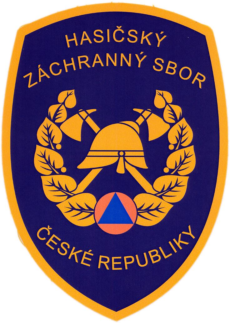 Seal of the Fire Rescue Service of the Czech Republic